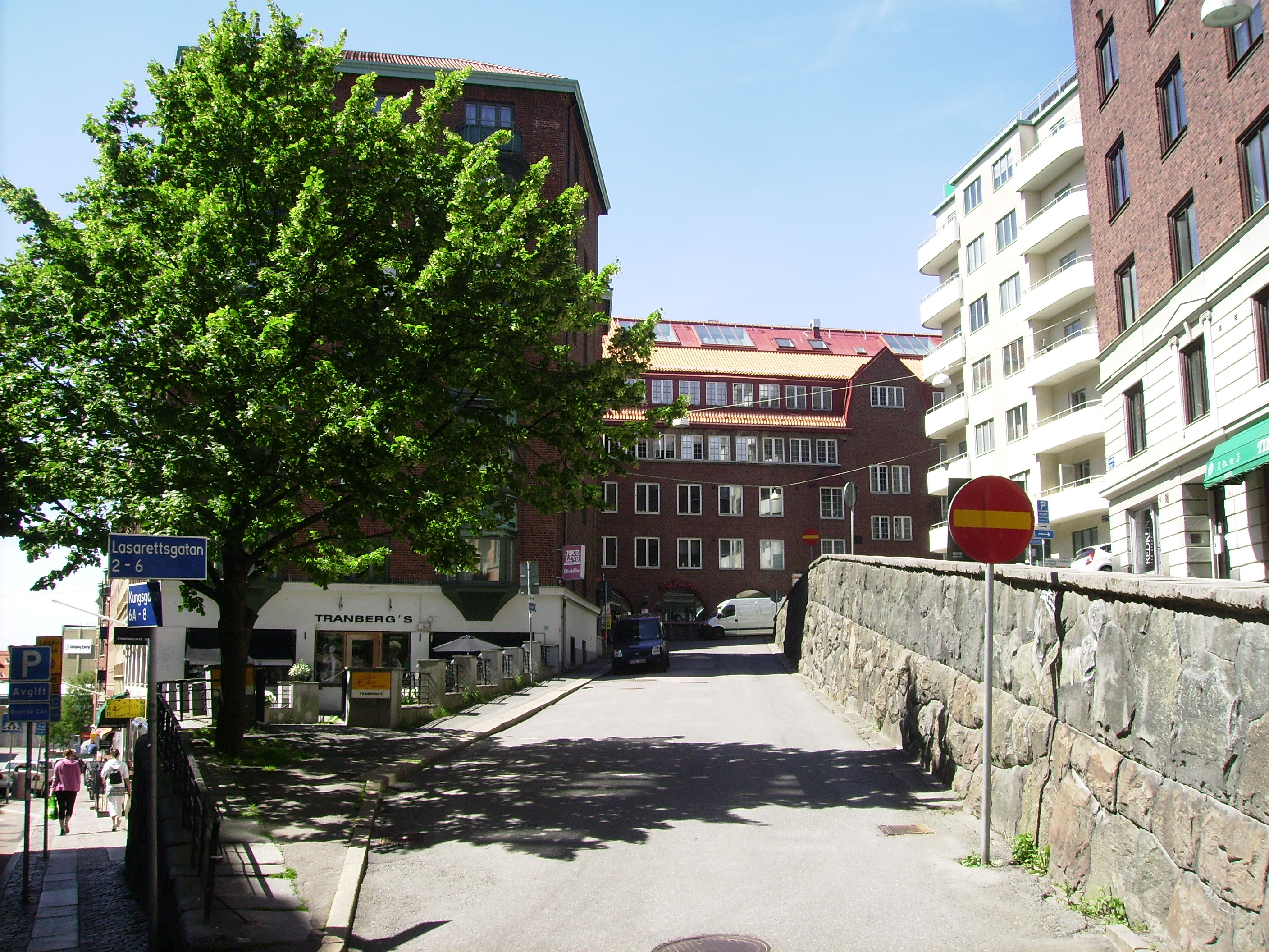 Picture of Lasarettsgatan in Gothenburg.